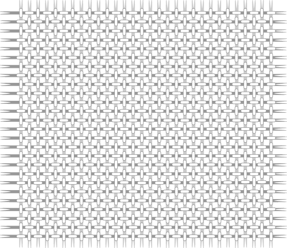 Diagram of the structure of a balanced plain weave textile.